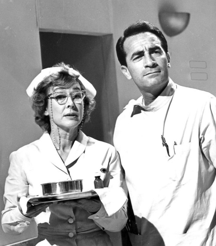 Photo of Mae Clarke as nurse Marge Brown and John Beradino as Doctor Steve Hardy from the television program General Hospital. In her earlier film career, Clarke was the actress who had the grapefruit half pushed into her face by James Cagney in Public Enemy Number One.